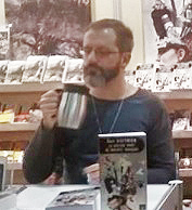 Éric Gauthier photographed in Montréal, Québec, Canada at the Salon du livre de Montréal 2015.